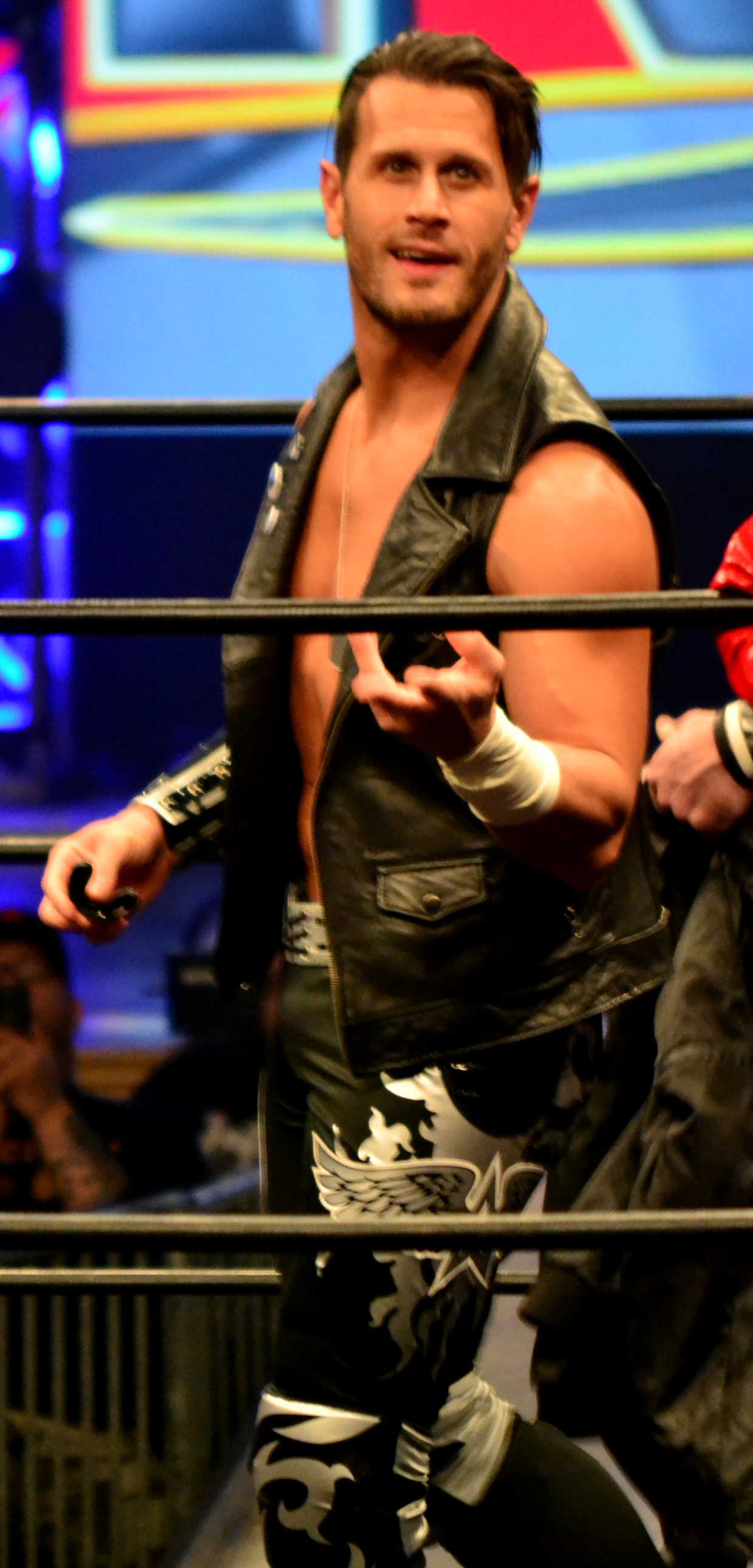 Professional wrestler, Alex Shelley on February 27, 2016.